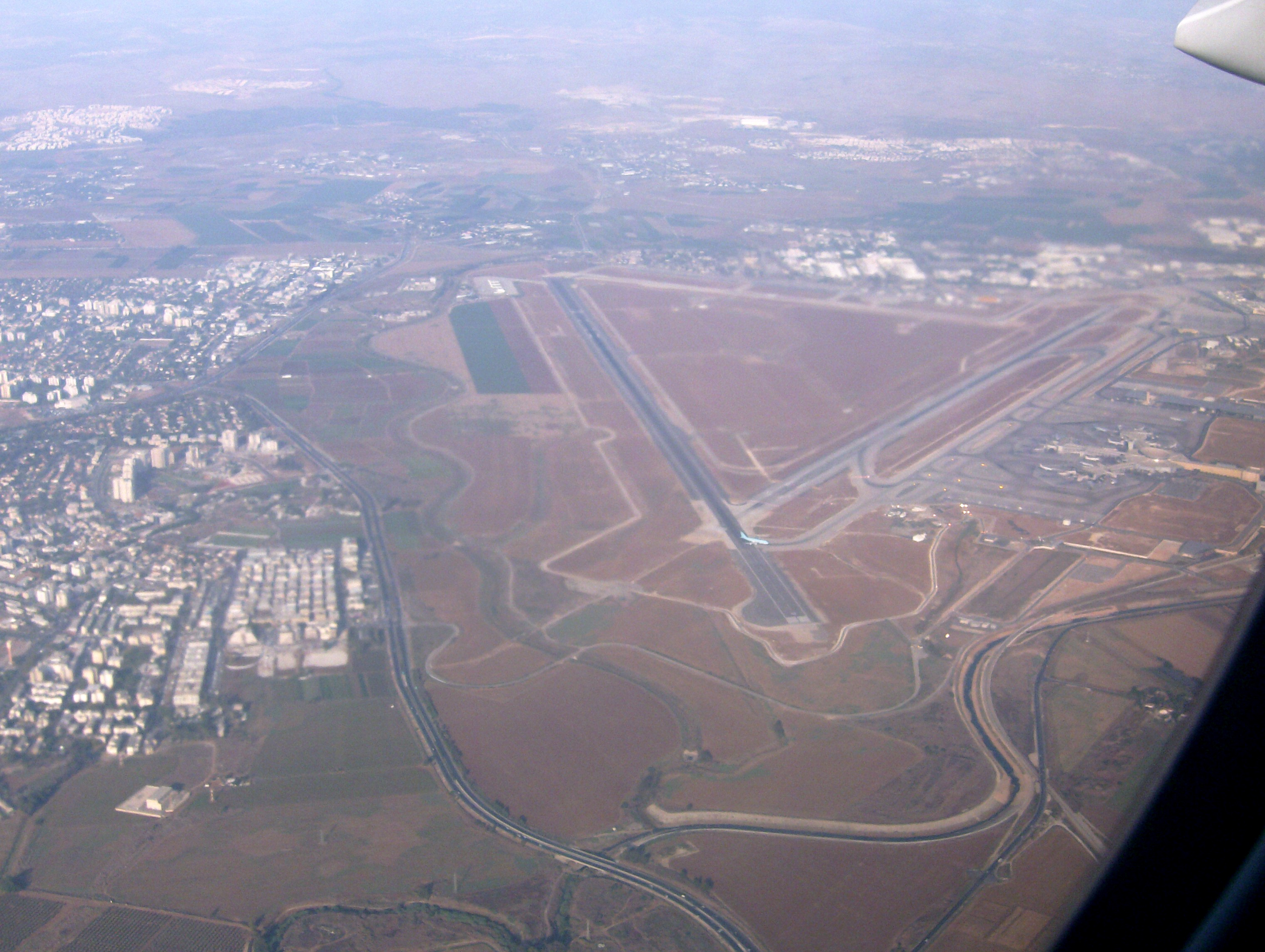 Ben Gurion Airport's Runways, as seen from an incoming flight. There is an aircraft seen taxiing on the runway. This incoming Delta flight from Atlanta, GA circled around the airport and landed on the NW runway, approaching from the east